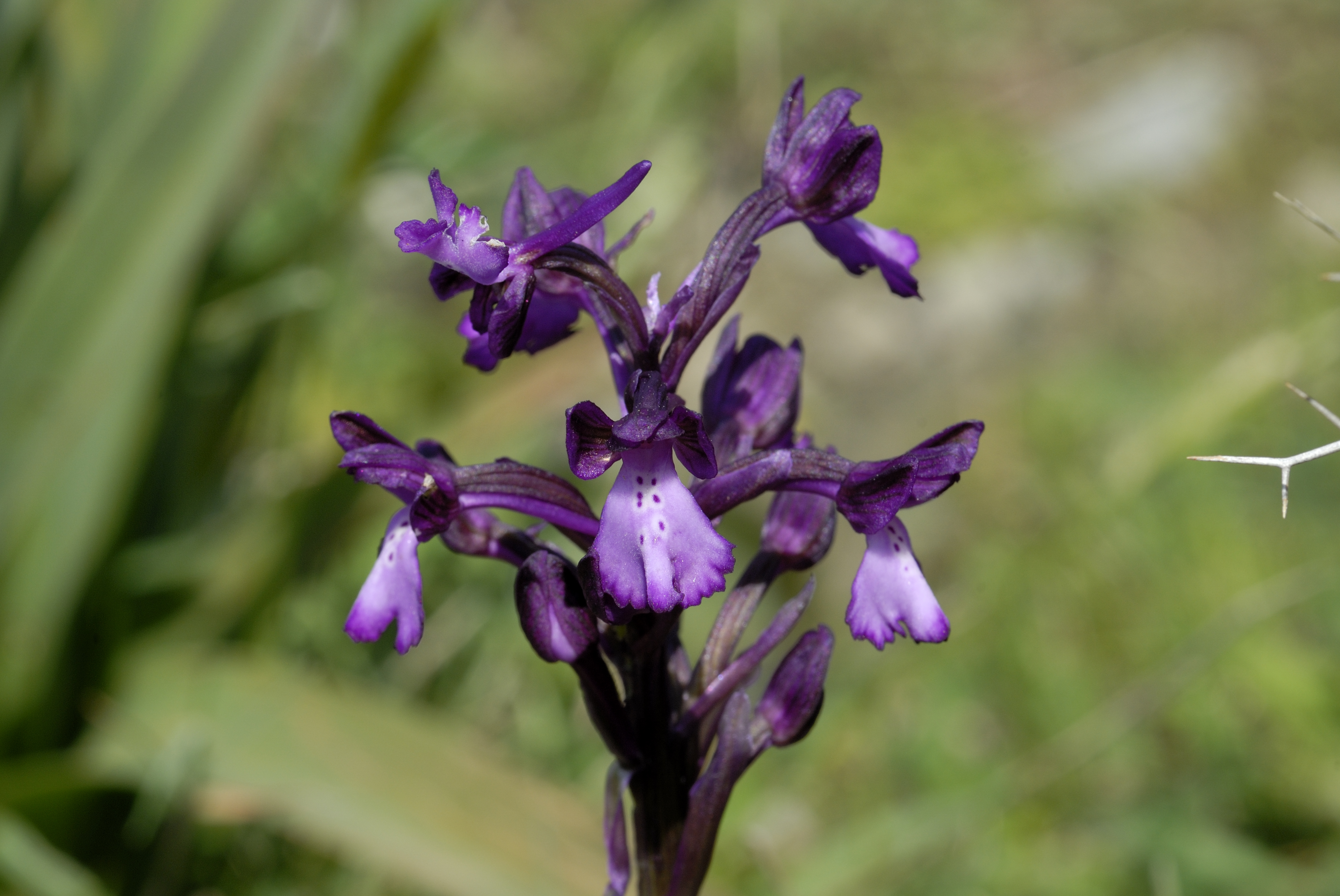 Orchis boryi Gerakari/Crete